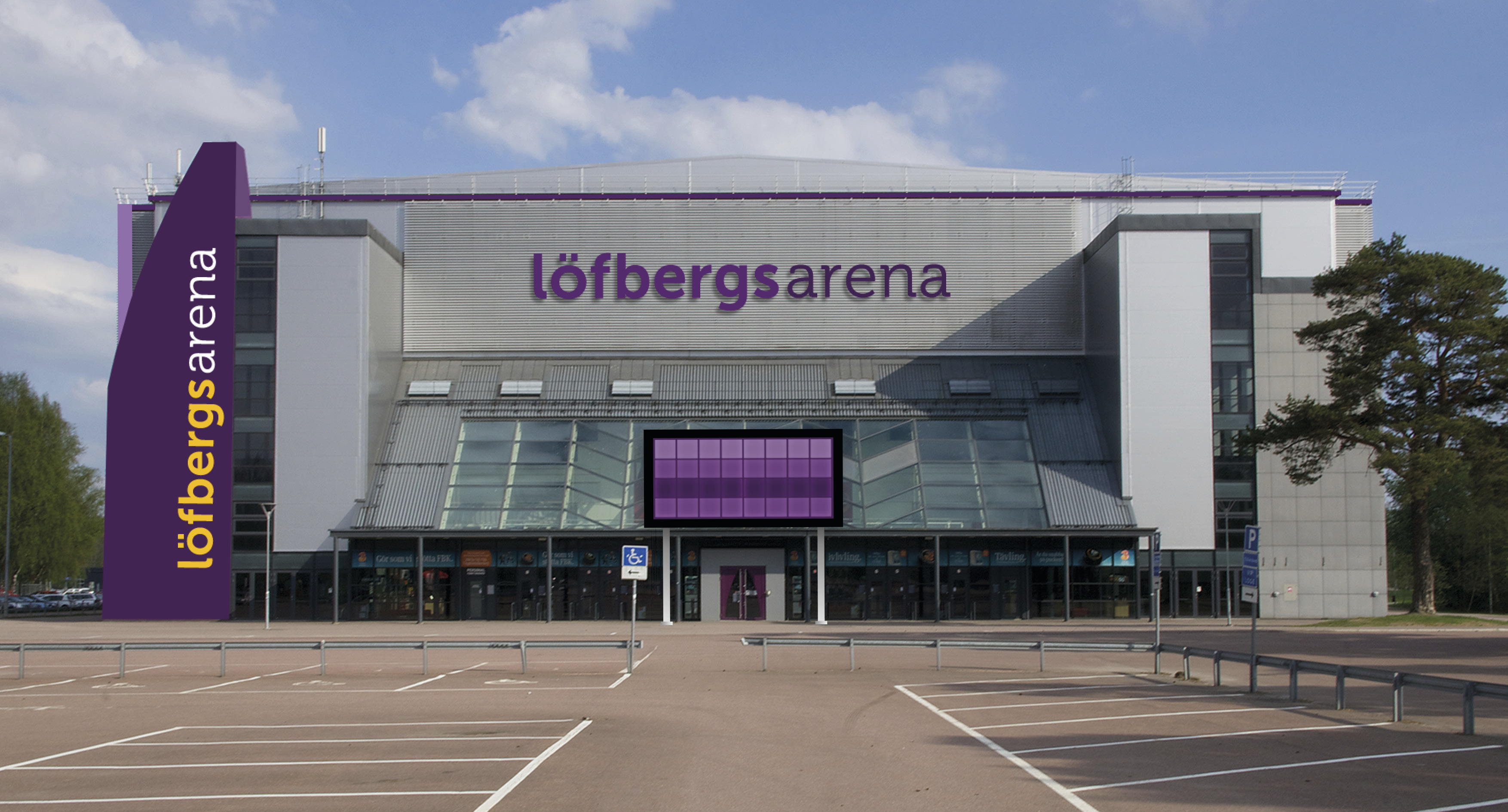 Löfbergs Arena in Karlstad, Sweden by day.